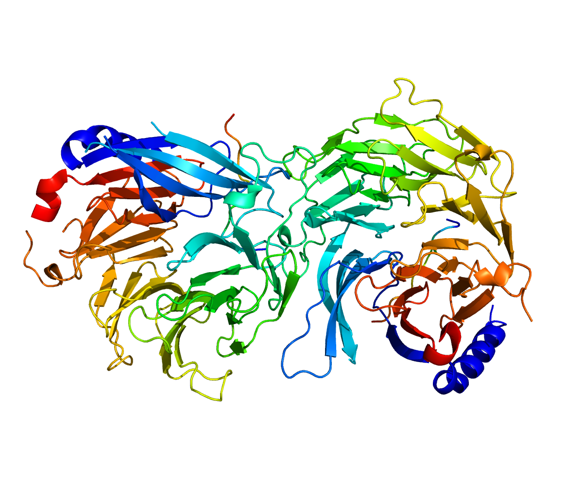 Structure of protein RBBP4.Based on PyMOL rendering of PDB 2XU7.